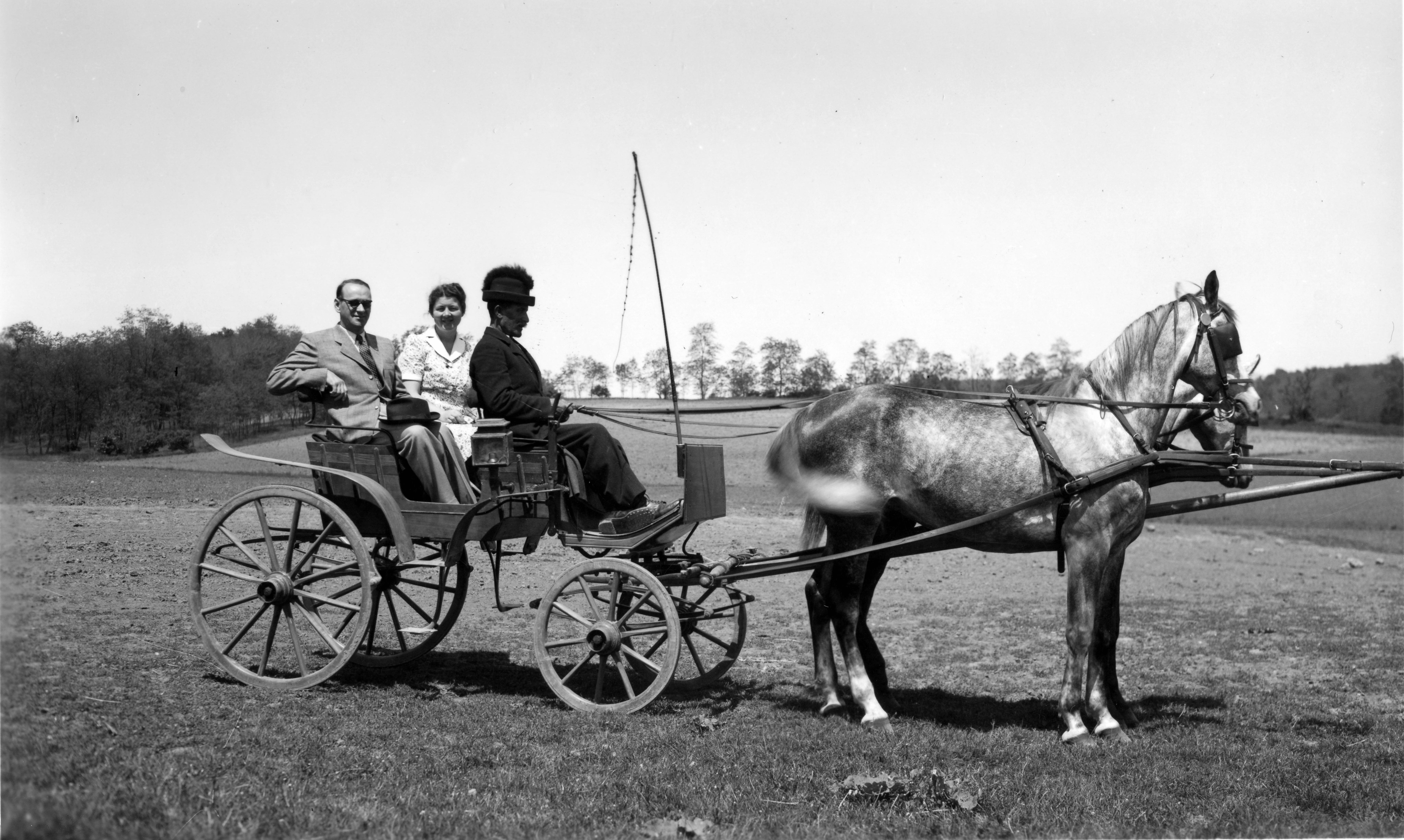 Tags: coach, saddle, teamster